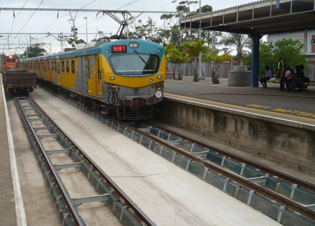 Tubular Modular Track installed at KwaMashu Station, Durban